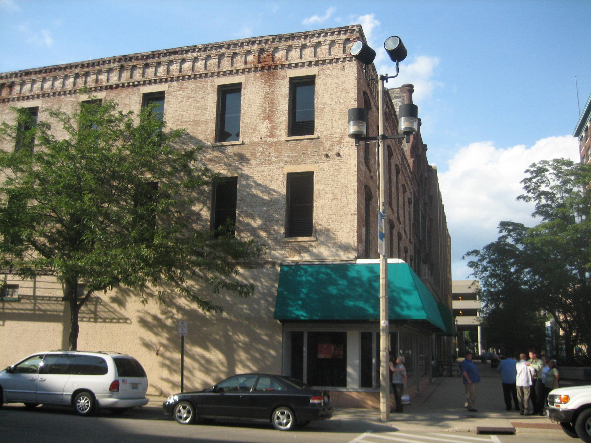 Chick House, Rockford, Illinois, United States. U.S. National Register of Historic Places.